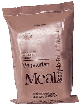 a Meal, Ready-to-eat (MRE), vegetarian menu